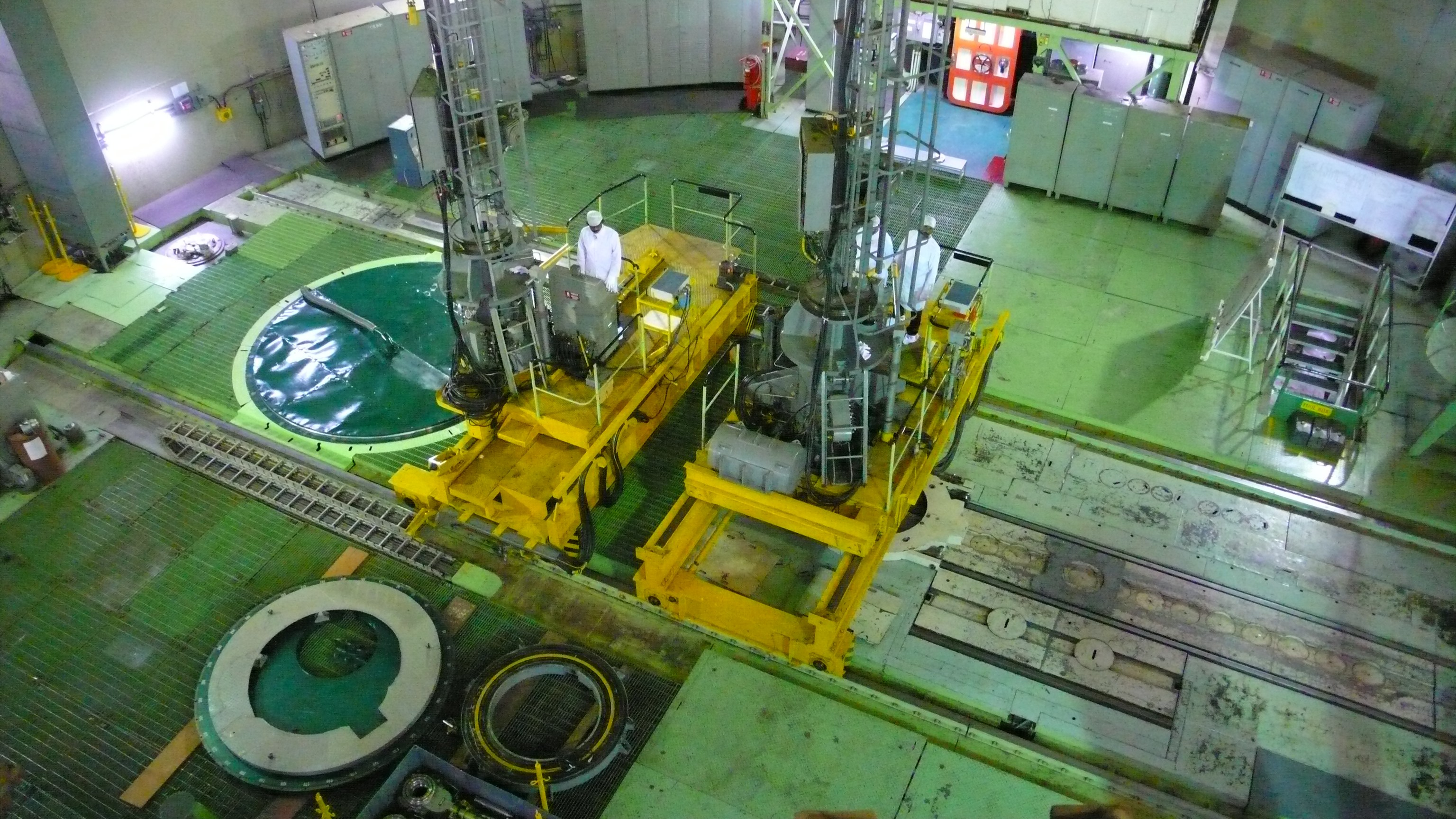 A Fast-Breeder Test Reactor at the Kalpakkam Nuclear Complex, India. Photo Credit: Petr Pavlicek / IAEA